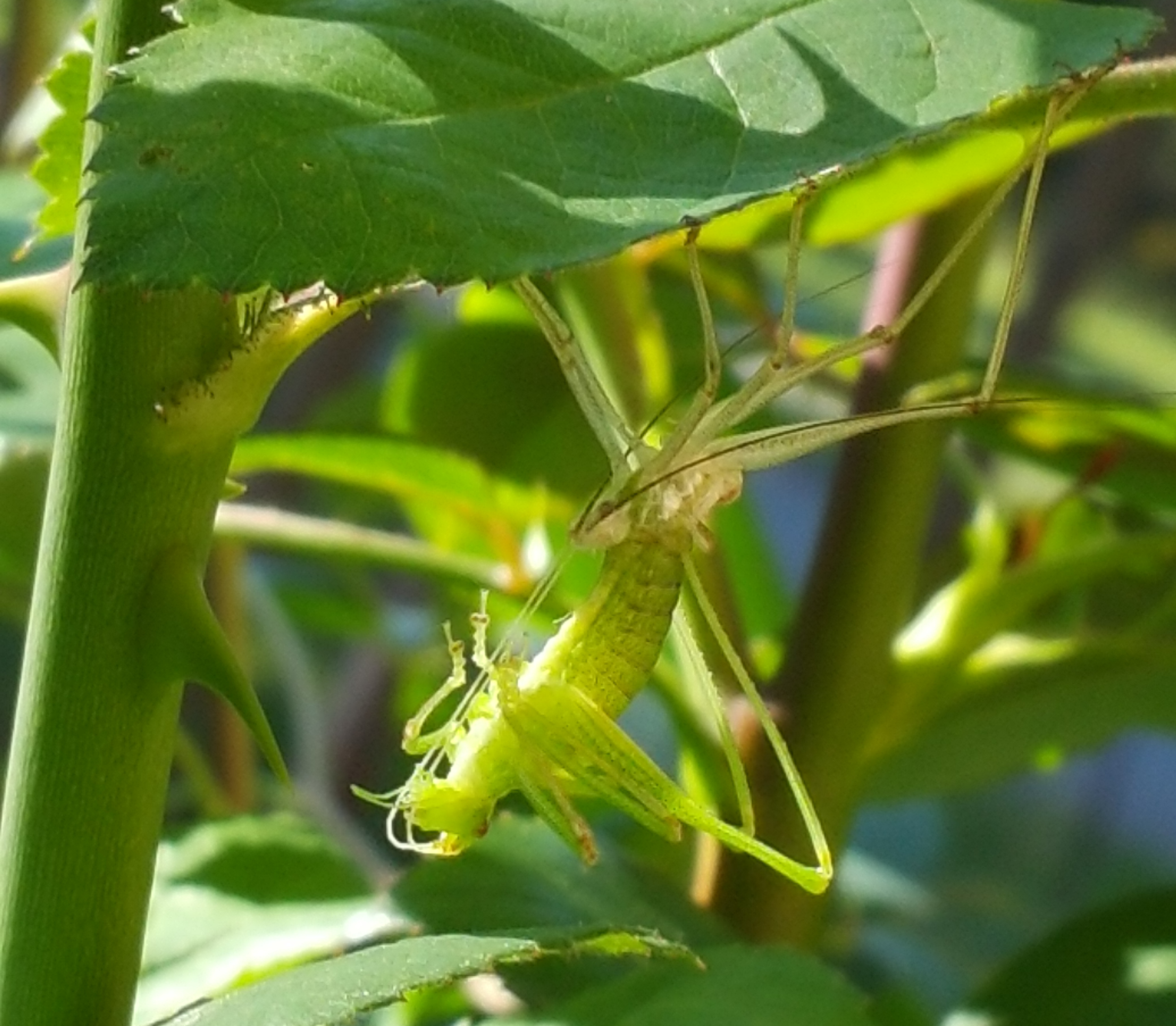 grasshopper shedding.